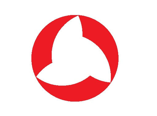 Flag of Nishigo Fukushima